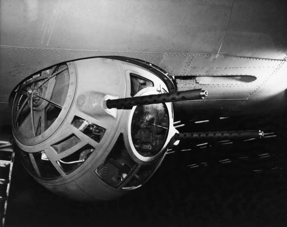 PictionID:41905009 - Title:Standard Briggs/Sperry Ball Turret Installation - Catalog:16_002318 - Filename:16_002318.tif - Ray Wagner was Archivist at the San Diego Air and Space Museum for several years and is an author of several books on aviation --- ---Please Tag these images so that the information can be permanently stored with the digital file.---Repository: San Diego Air and Space Museum